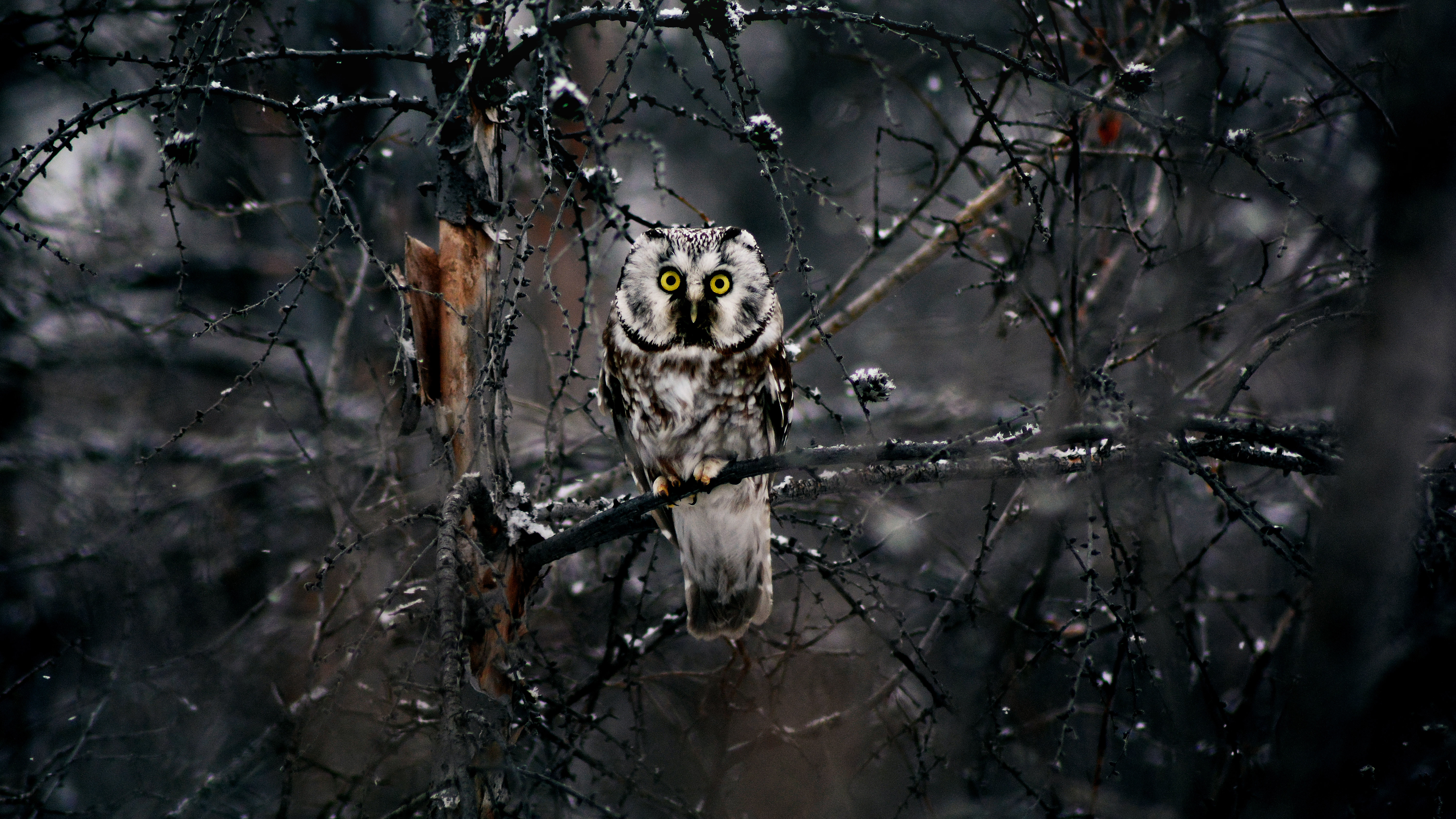 Tengmalm's Owl in Momsky Nature Park, Republic of Sakha This image is related to the protected area of Russia number 1410127